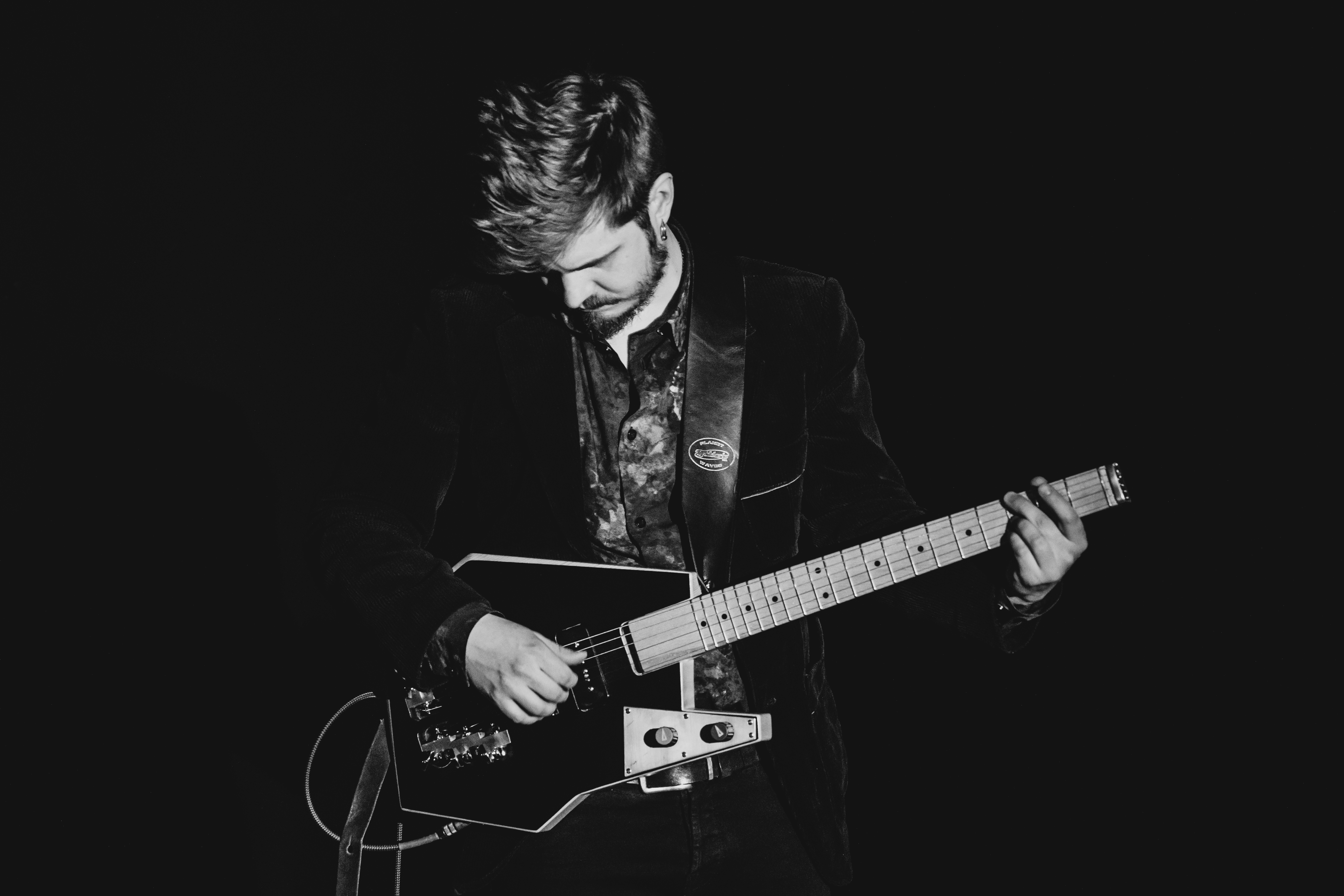 Heikki Ruokangas